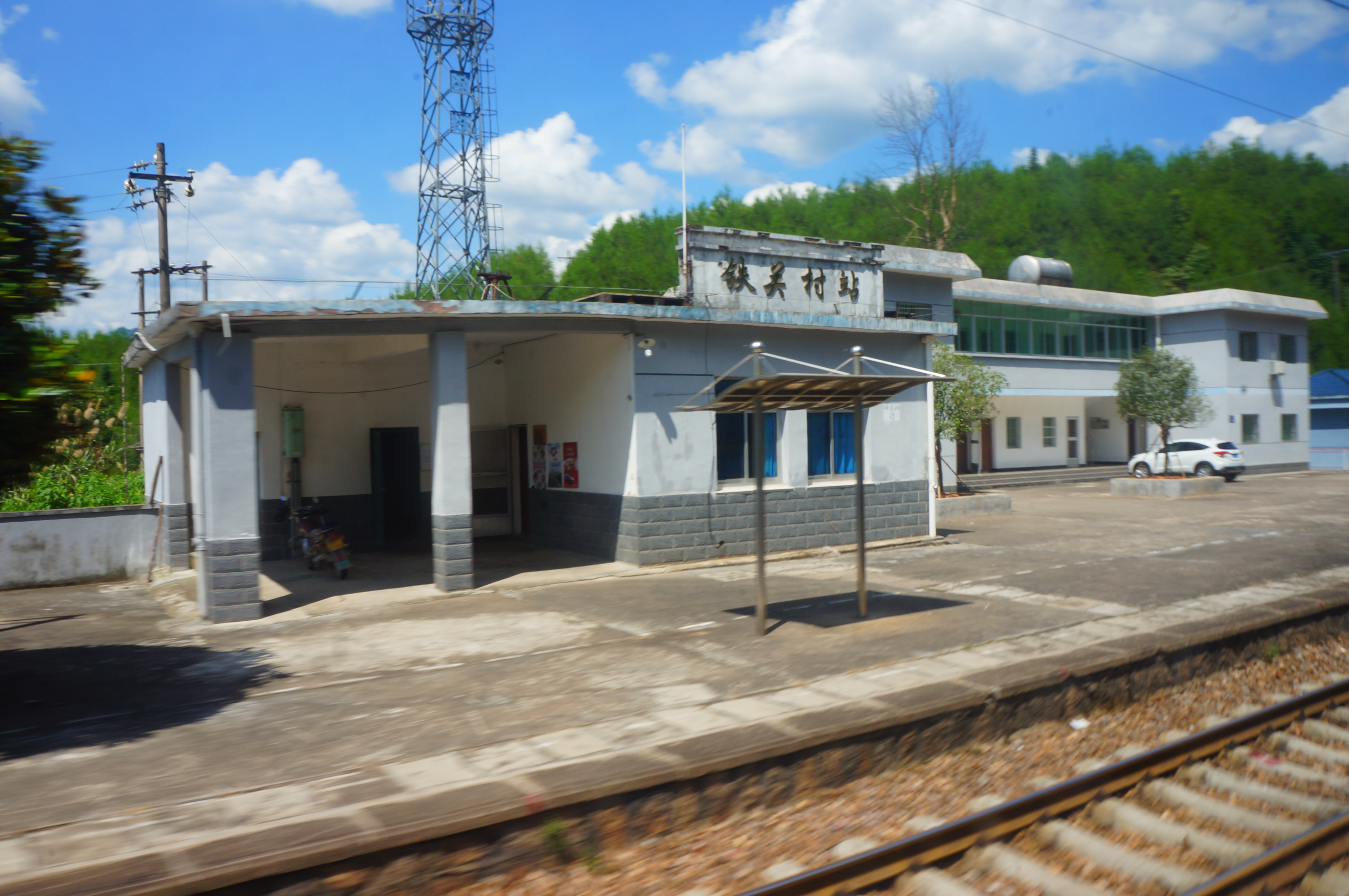 201806 Station Building of Tieguancun Station